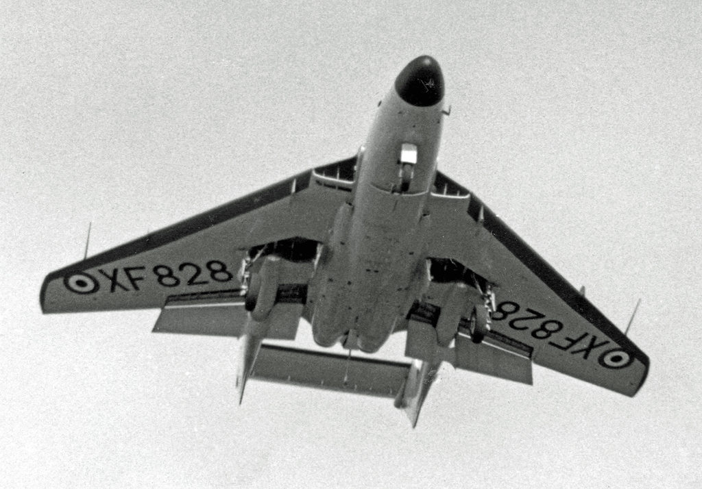 The third prototype DH.110 XF828 demonstrating at the 1955 Farnborough Air Show